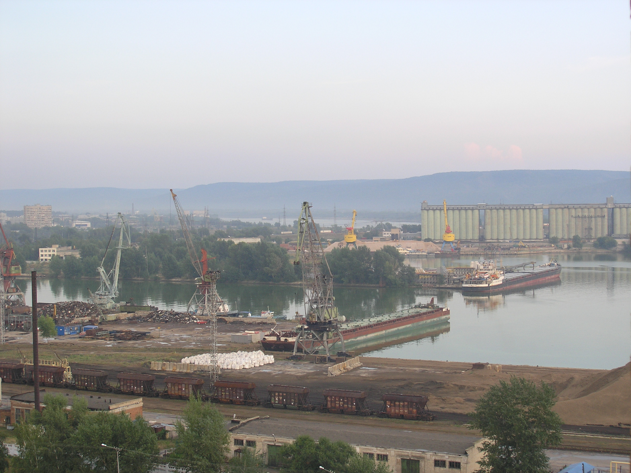 River port, Togliatti, Russia